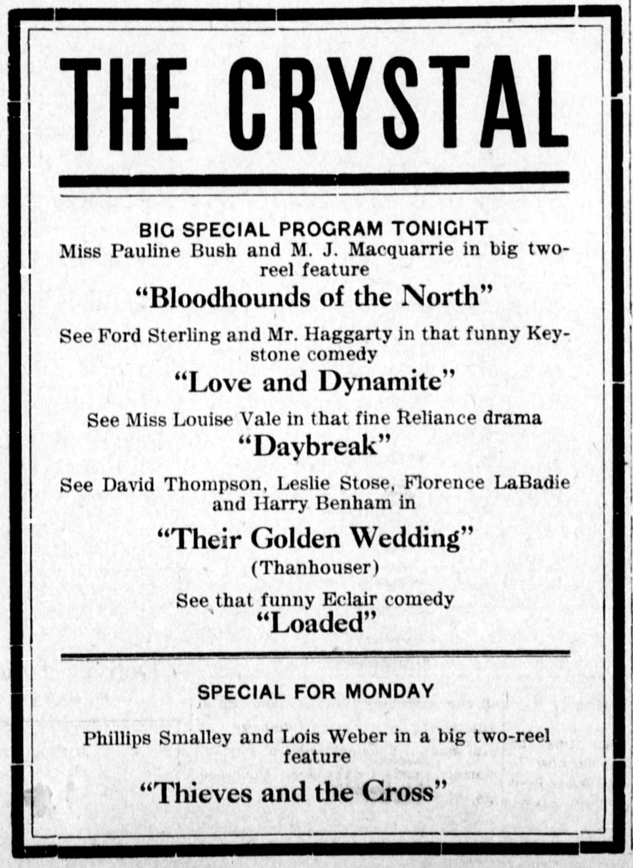 This is a newspaper advert for Bloodhounds of the North and other films.